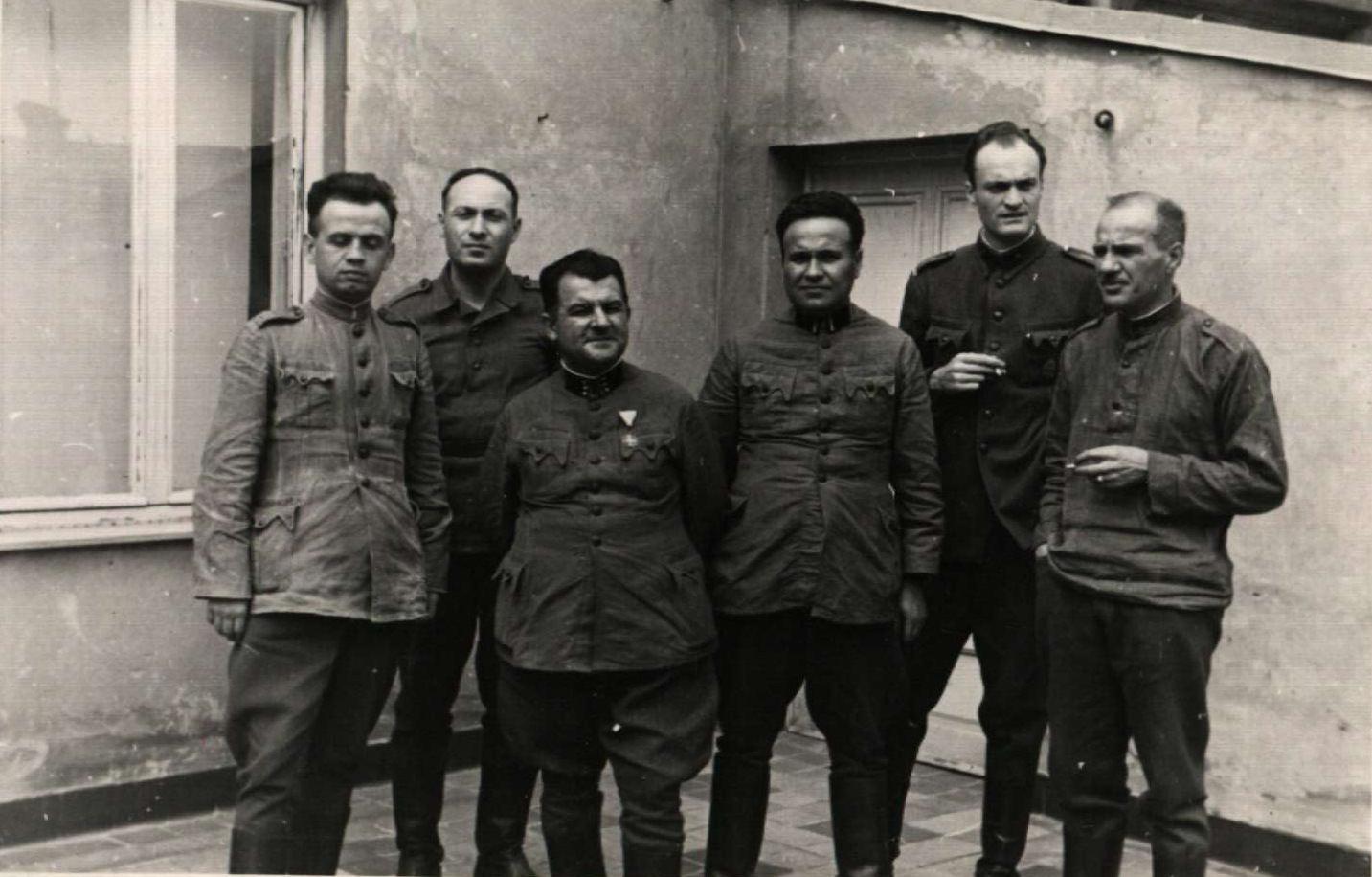 Vasil Seizov and Georgi Borshukov, Emil Koralov, Vladimir Balyuchev, Belgrade